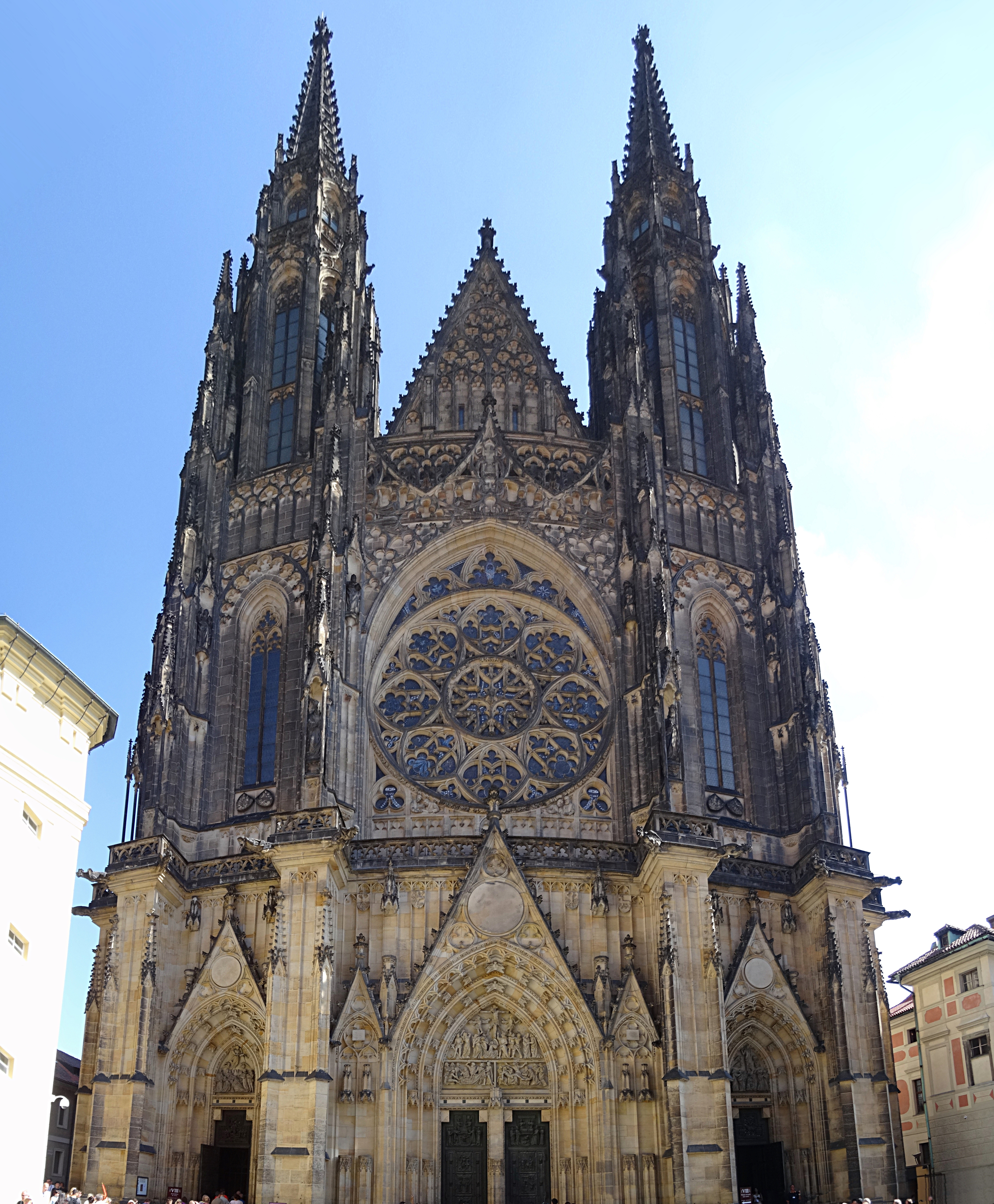 St. Vitus Cathedral in the courtyard of the Prague Castle